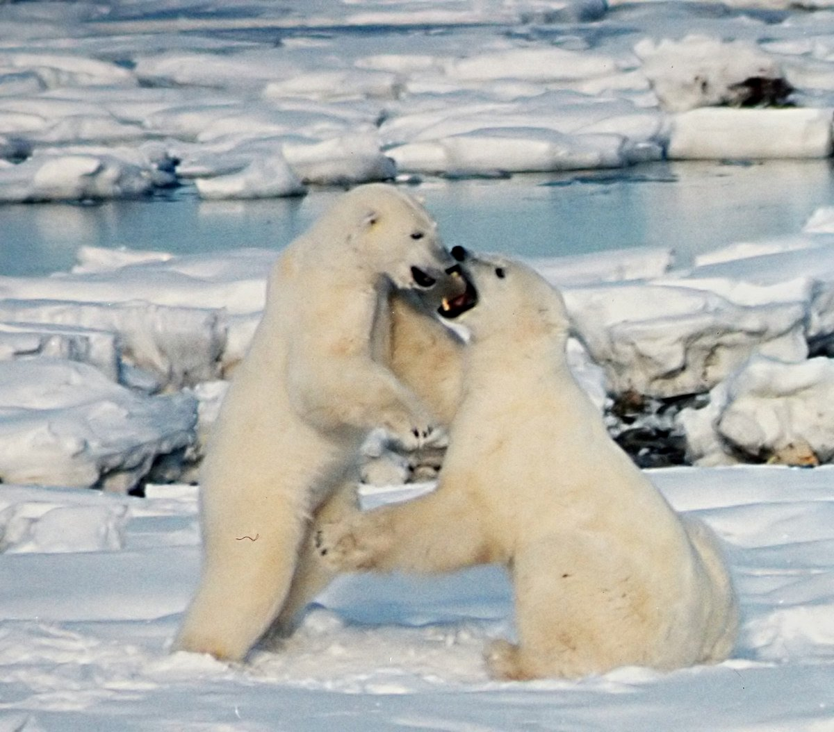 Polar bears are engaged in play fight in Churchill. Photograped by Brocken Inaglory